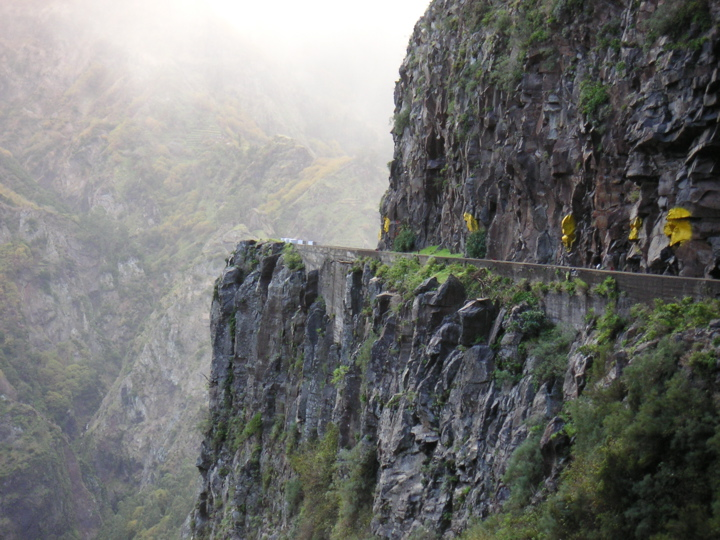 Here's the old road to Curral das Freiras just after the rock slide in the previous picture. I was disappointed not to be able to drive over such a dramatic road.